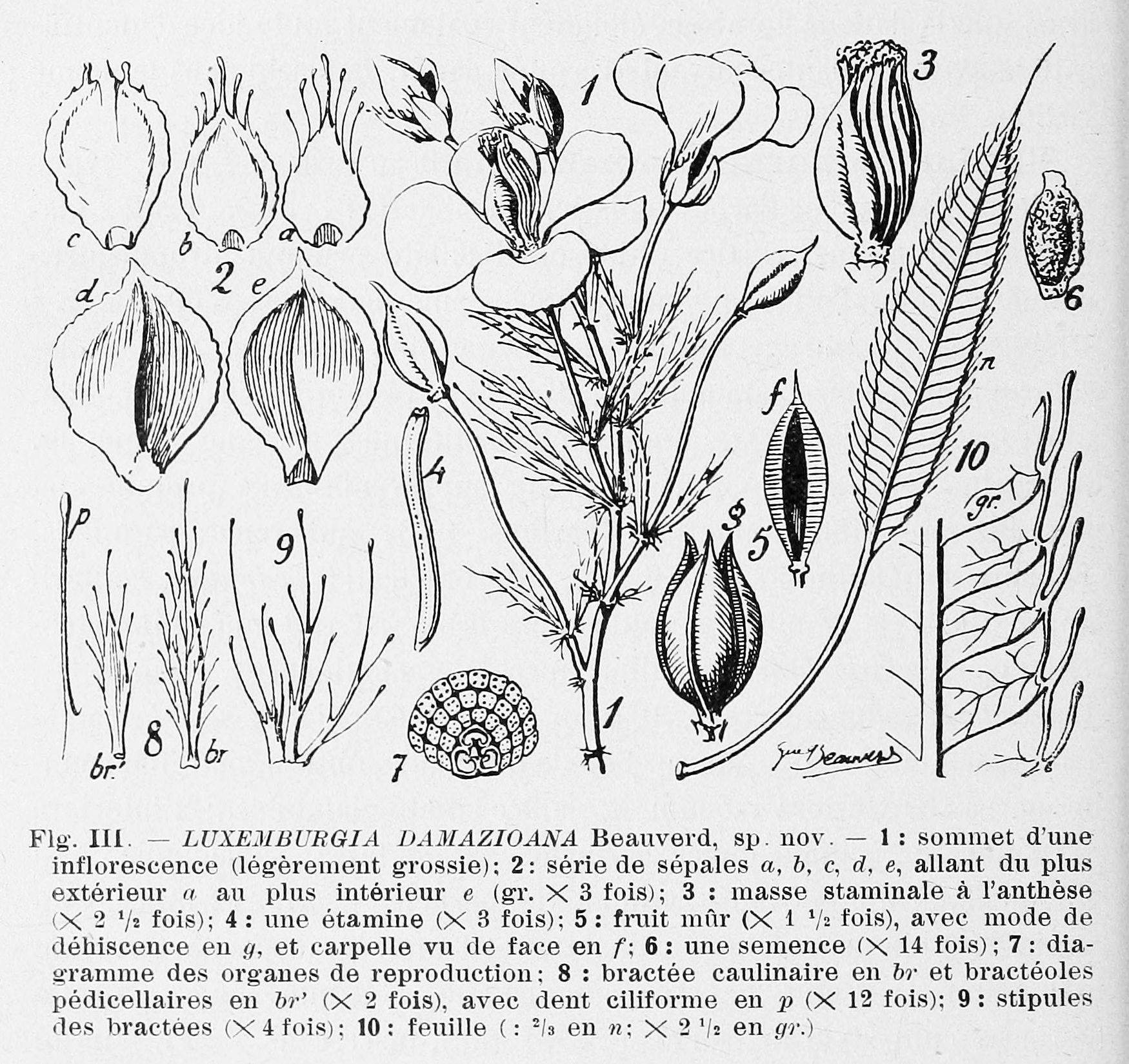 Illustration of Luxemburgia damazioana (Ochnaceae)